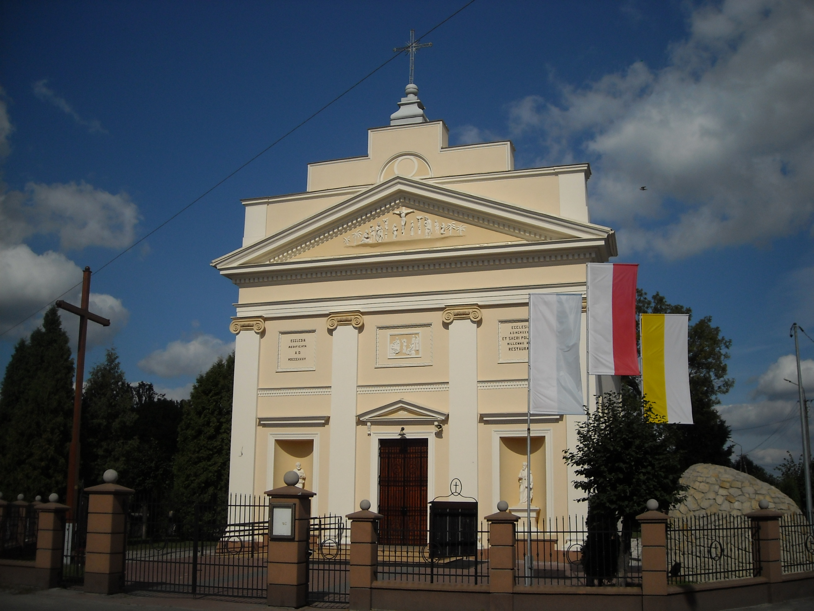 Saint Stanislaus Kostka church in Okuniew (1 Kościelna st.) in Poland.